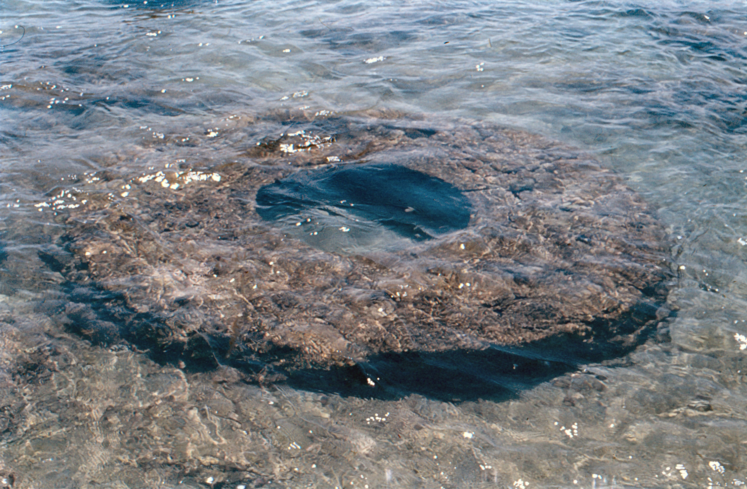 Sweet water in the Well at salt sea a Dor beach, Israel